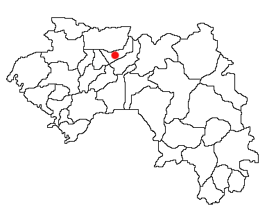 Koubia, Guinea Location Map; created with the GIMP. Made by User:Acntx.